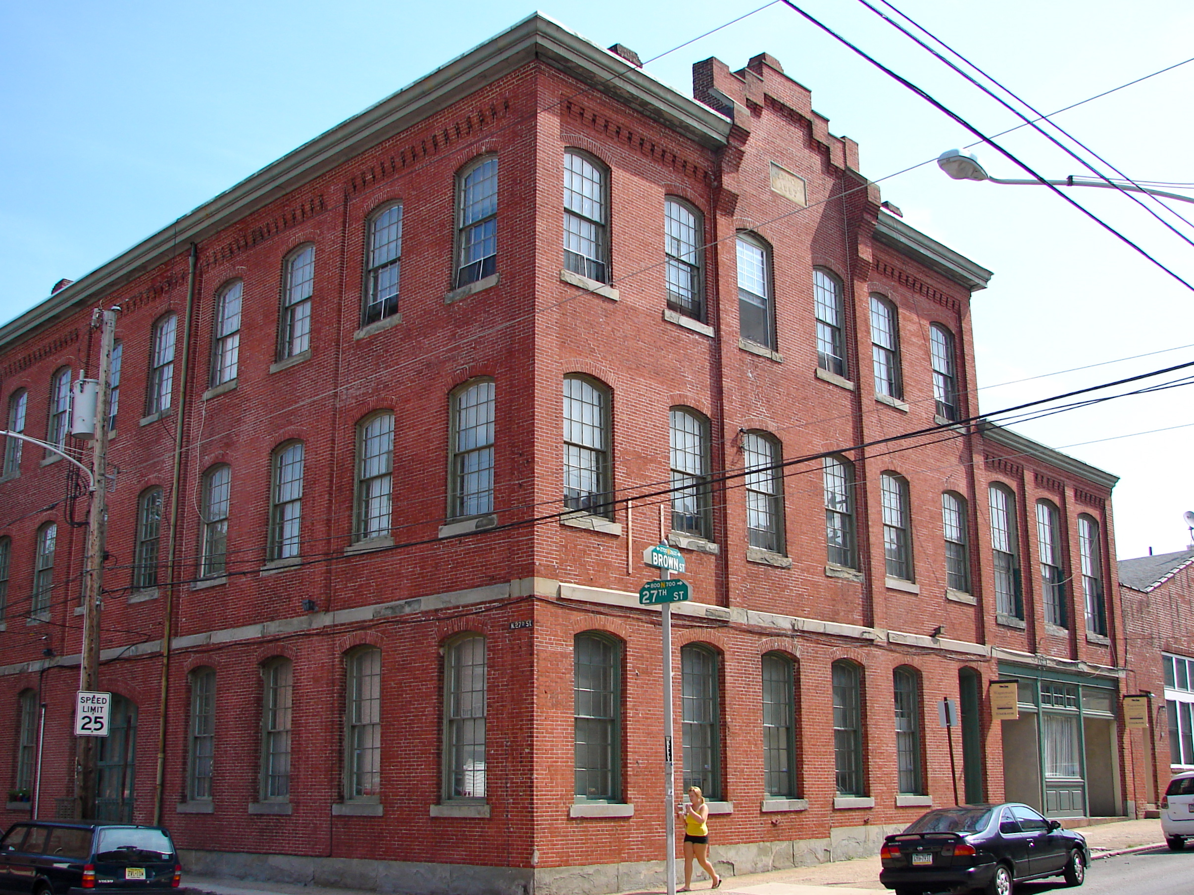 Frank C. Scherer Wagon Works in Philadelphia, on the NRHP since December 26, 1985. At 801 North 27th St. (NE corner of 27th and Brown) in the Fairmount neighborhood of North Philly.